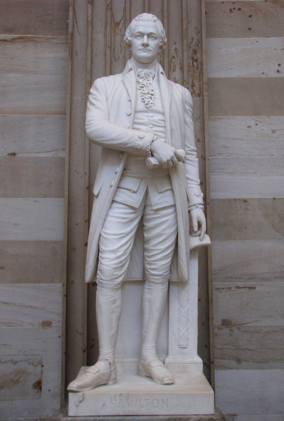 Photograph of statue of Alexander Hamilton by Horatio Stone in the rotunda of the United States Capitol, taken by Rebel At, on June 23rd, 2007.